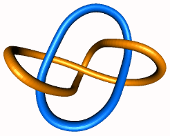 This is a three-dimensional rendering of the Whitehead link.